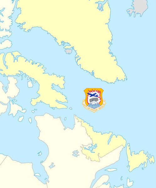 64th Air Division AOR 1952-1963